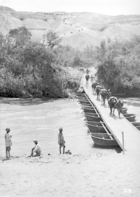 Column of Australian Light Horse crossing the Middle Pontoon Bridge, at Auja Ford, in the Jordan Valley. In the distance can be seen horsemen descending the steep winding track, leading to the bridge. This further bridgehead was entrenched and held continuously after the second Amman raid.